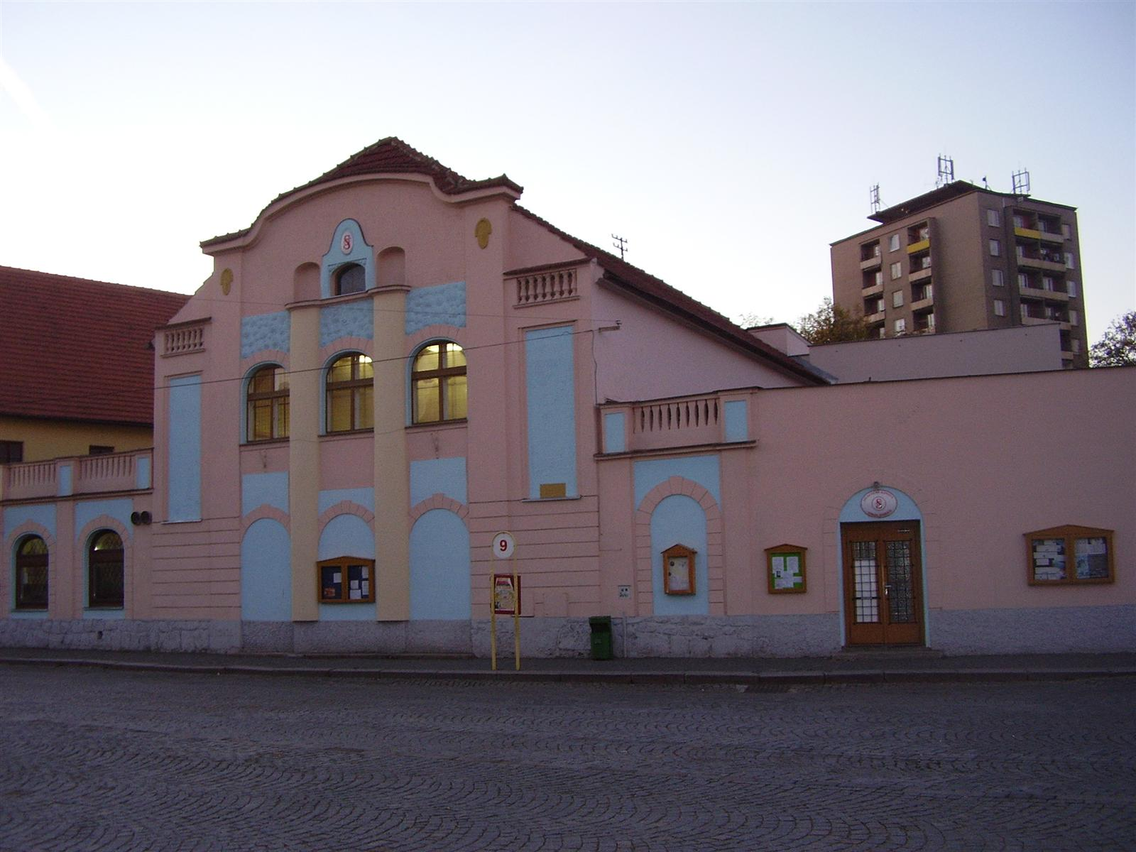 Building at Dobříš square